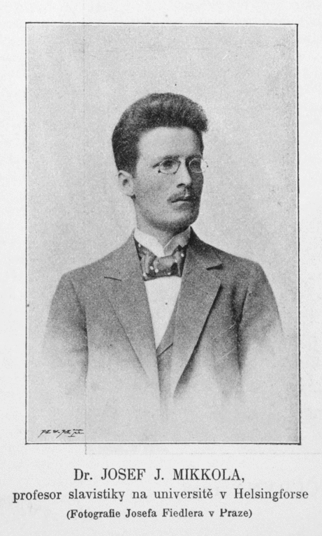 Portrait of Jooseppi Julius Mikkola (1866-1946), Finnish professor of Slavonic studies. The picture was taken during his visit to Prague on occasion of 100 years since the birth of František Palacký.